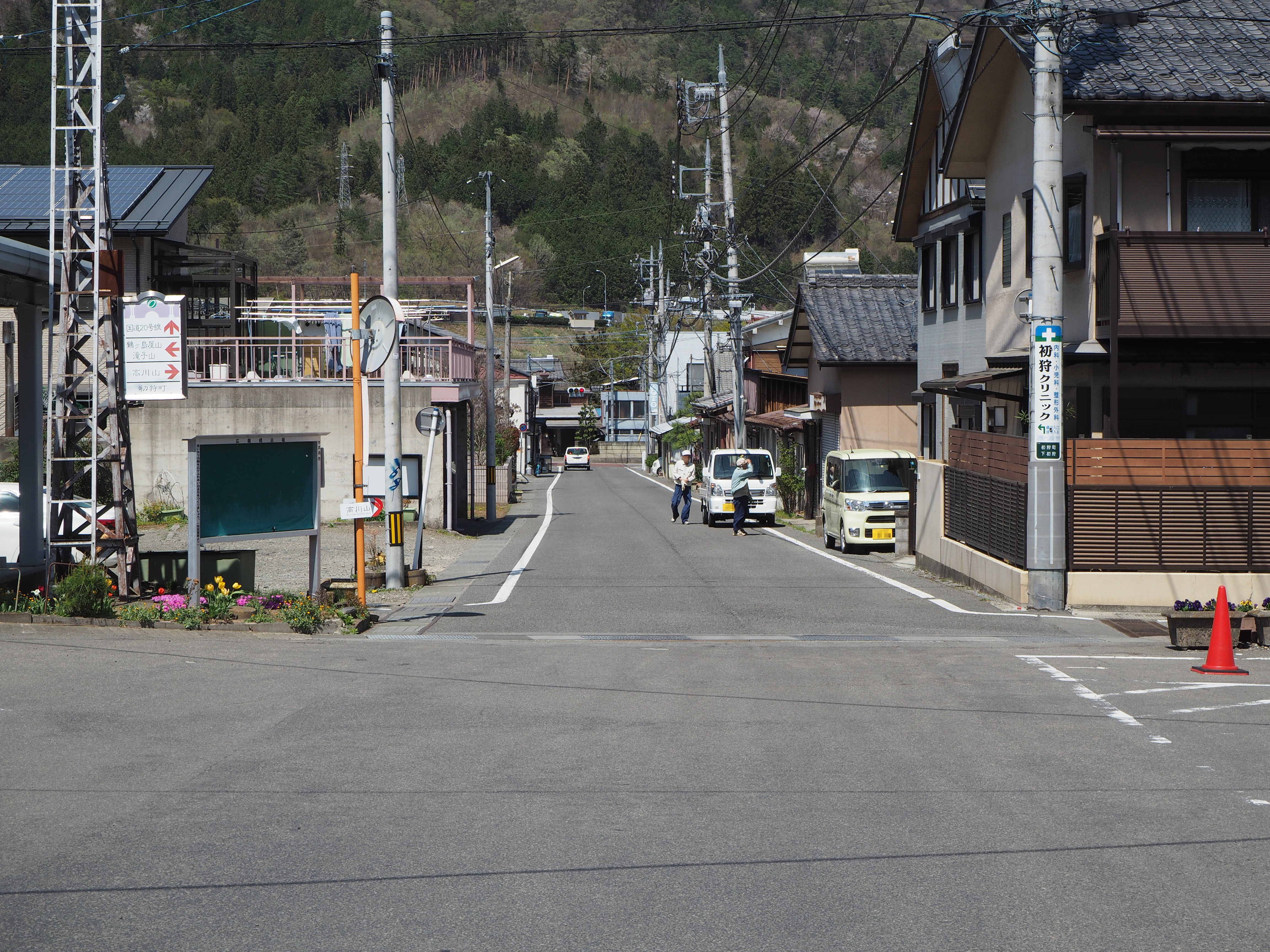 Yamanashi prefectural road 503